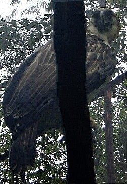 This photo was taken in 1999 at the Philippine Eagle Sanctuary near Davao City. The photo is not clear as I would have liked as it was taken on an overcase day with no flash, which would have been an unaccepable intrusion.